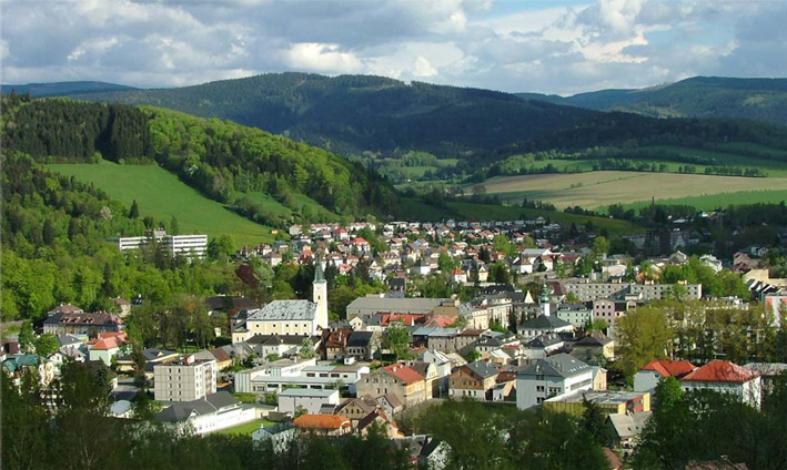 Freiwaldau